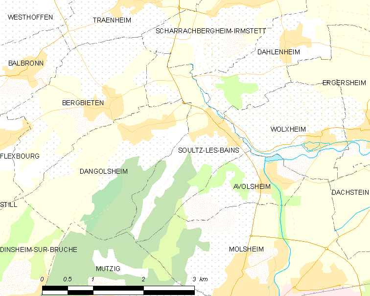 Map of French municipality